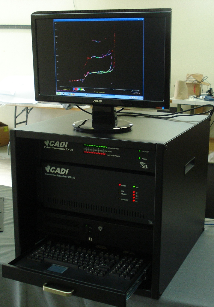 An example of a typical ionosonde system, consisting of a transmitter, receiver, and a computer displaying an ionogram.